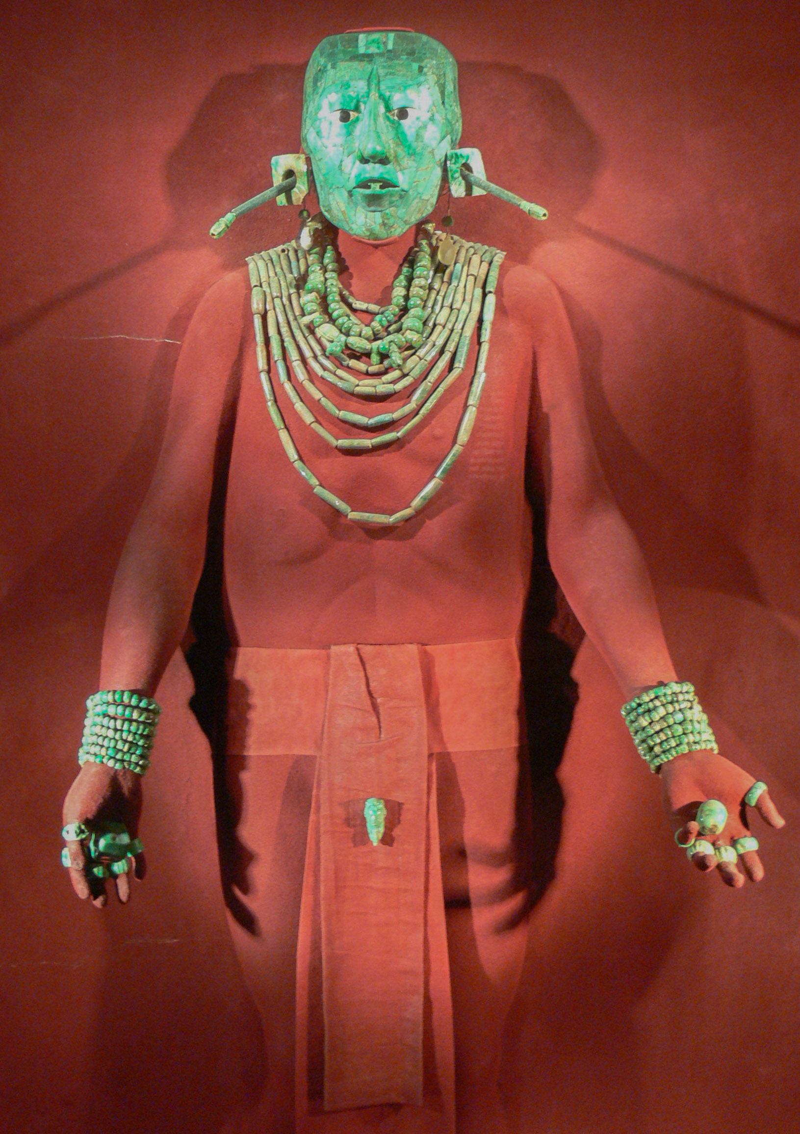 Anthropological Museum of Mexico City. Funerary dress of king Pakal of Palenque ( 7th century )